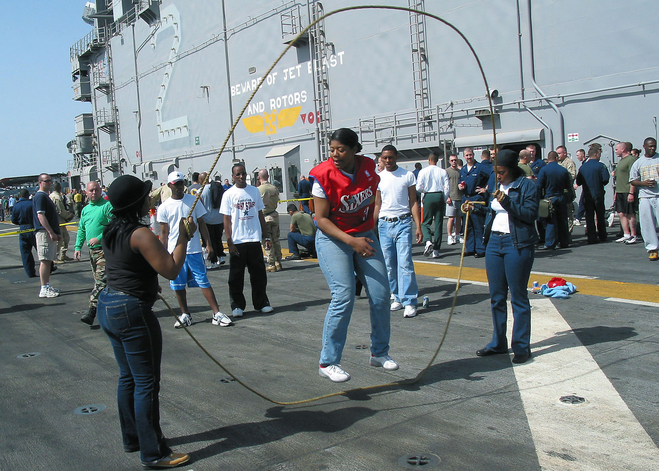 Arabian Gulf (Mar. 03, 2003) -- Sailors and Marines take time from a busy ship’s schedule to enjoy a day without flight operations or training drills. Crewmembers participate in a Captain's Cup jump rope competition during a steel beach picnic on the ship’s flight deck. Saipan is on deployment with Amphibious Task Force East (ATF-E) in support of Operation Enduring Freedom. U.S. Navy photo by Photographer's Mate Airman Kyle T. Voigt. (RELEASED)